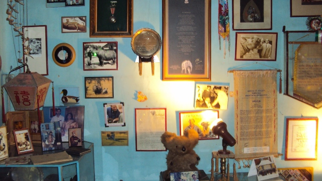 Robin Banerjee's - Science and Nature Museum